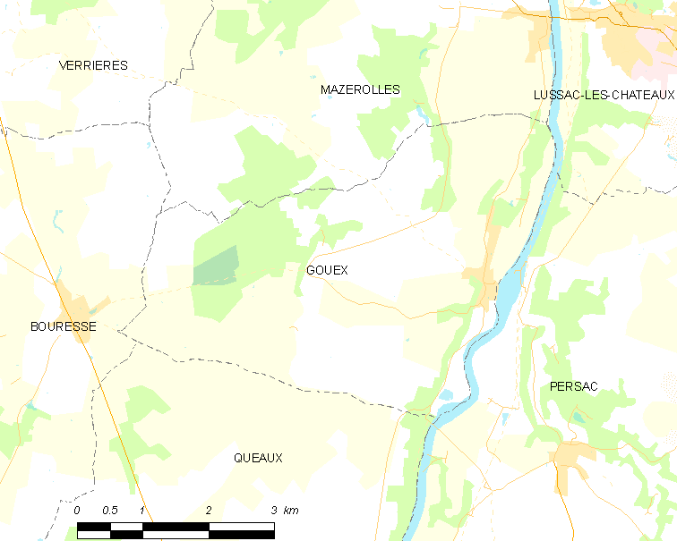 Map of French municipality Gouex